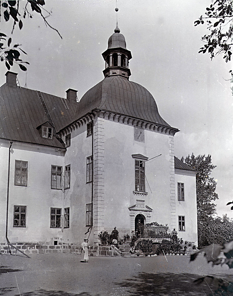 People outside Årsta Castle south of Stockholm. Built in about 1650, but originating in the 14th century. Format: Albumen print